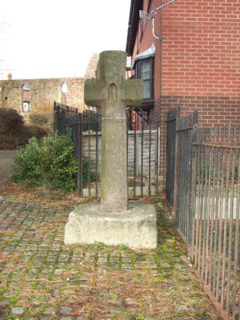 Cross beside ruins of St Loyes Chapel, Exeter. This cross stands in the grounds of the ruins. A picture of the ruins is at 1080851